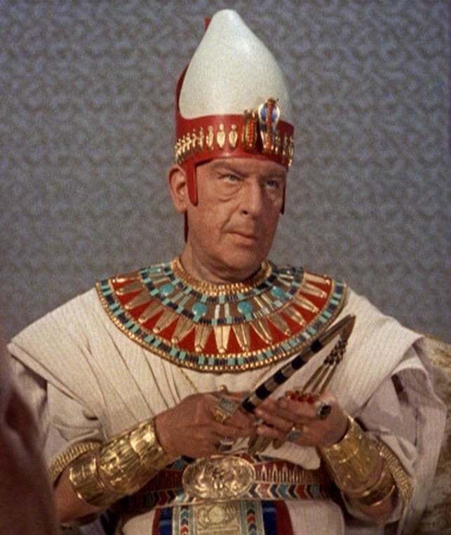 Cropped screenshot of Sir Cedric Hardwicke from the trailer for the film The Ten Commandments.